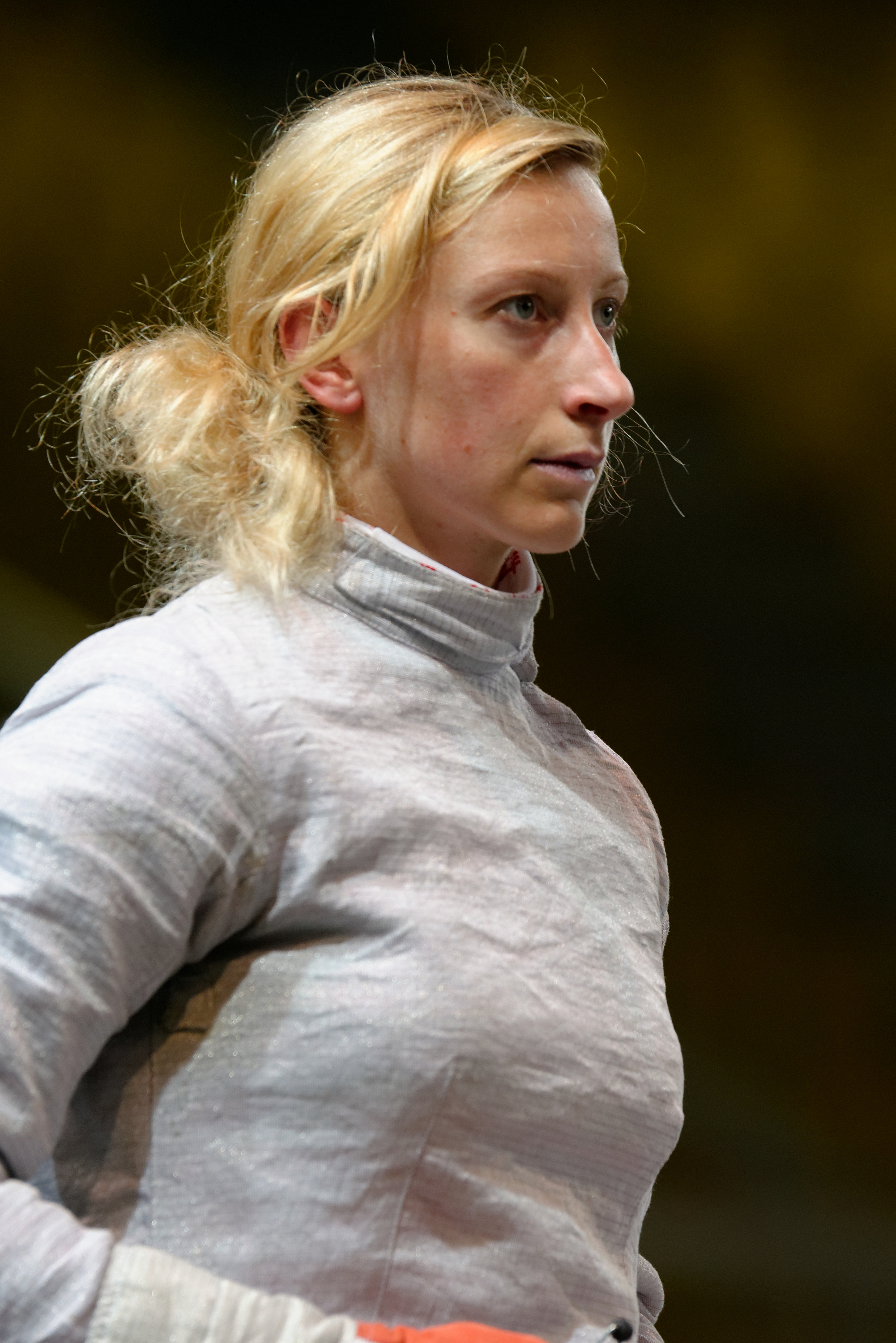 Aleksandra Socha of Poland during their match for the 5th place against Italy in the women's team sabre event at the European Fencing Championships at Rhénus Sport in Strasbourg on 13 June 2014.